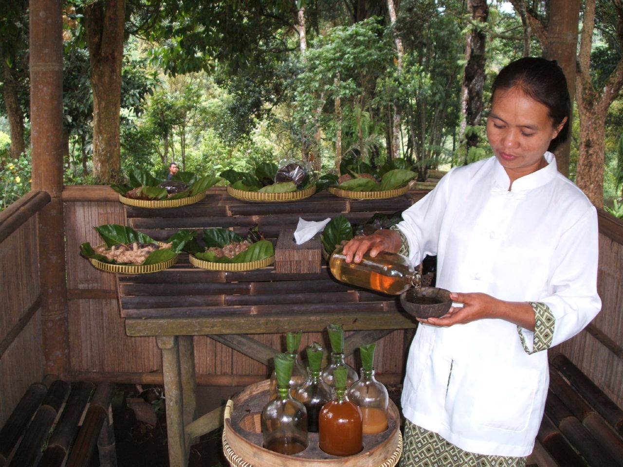 The jamu stand ... jamu = traditional healing beverages that taste awful. See Jamu.